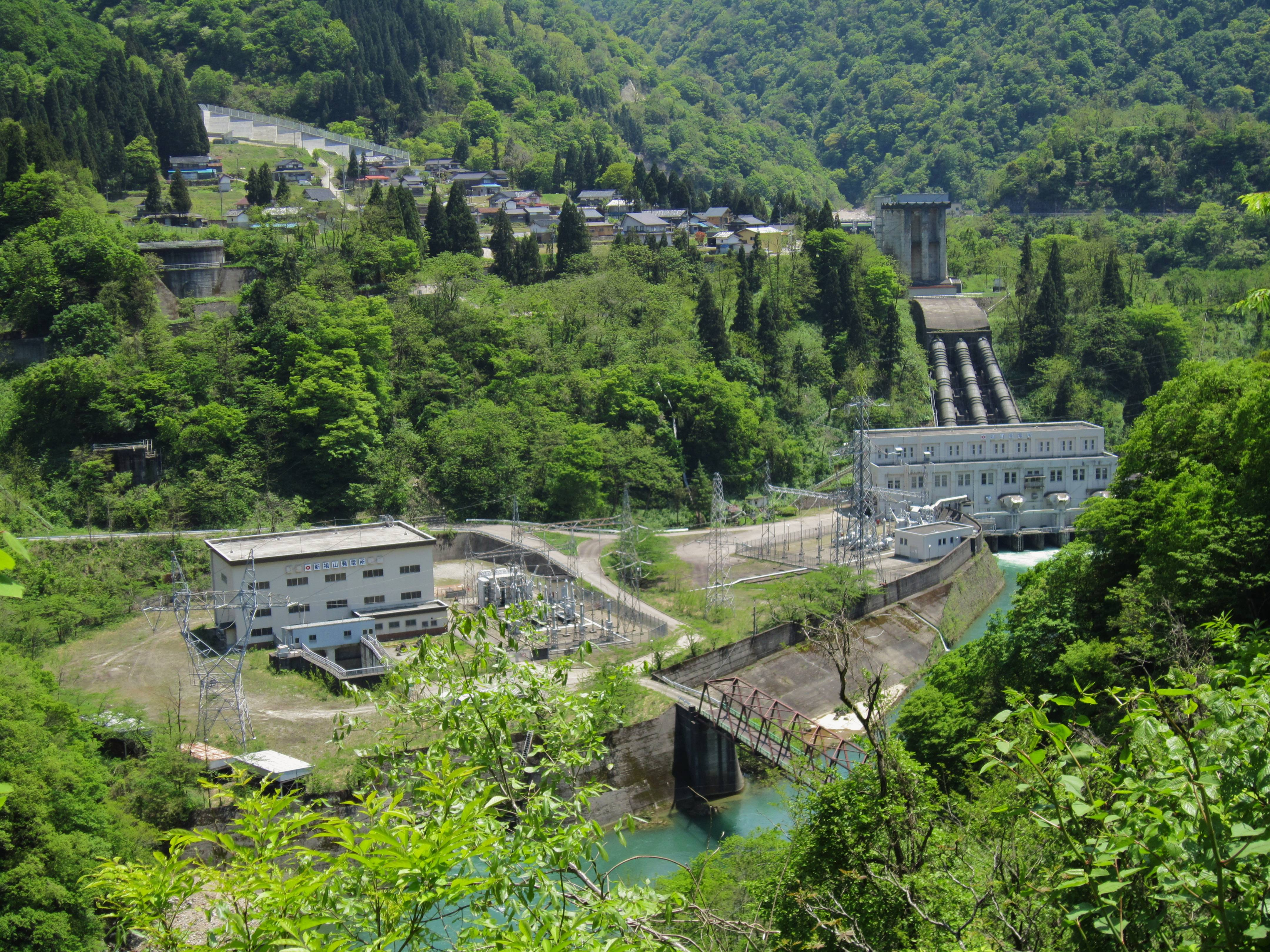 Soyama power and Shinsoyama power station.